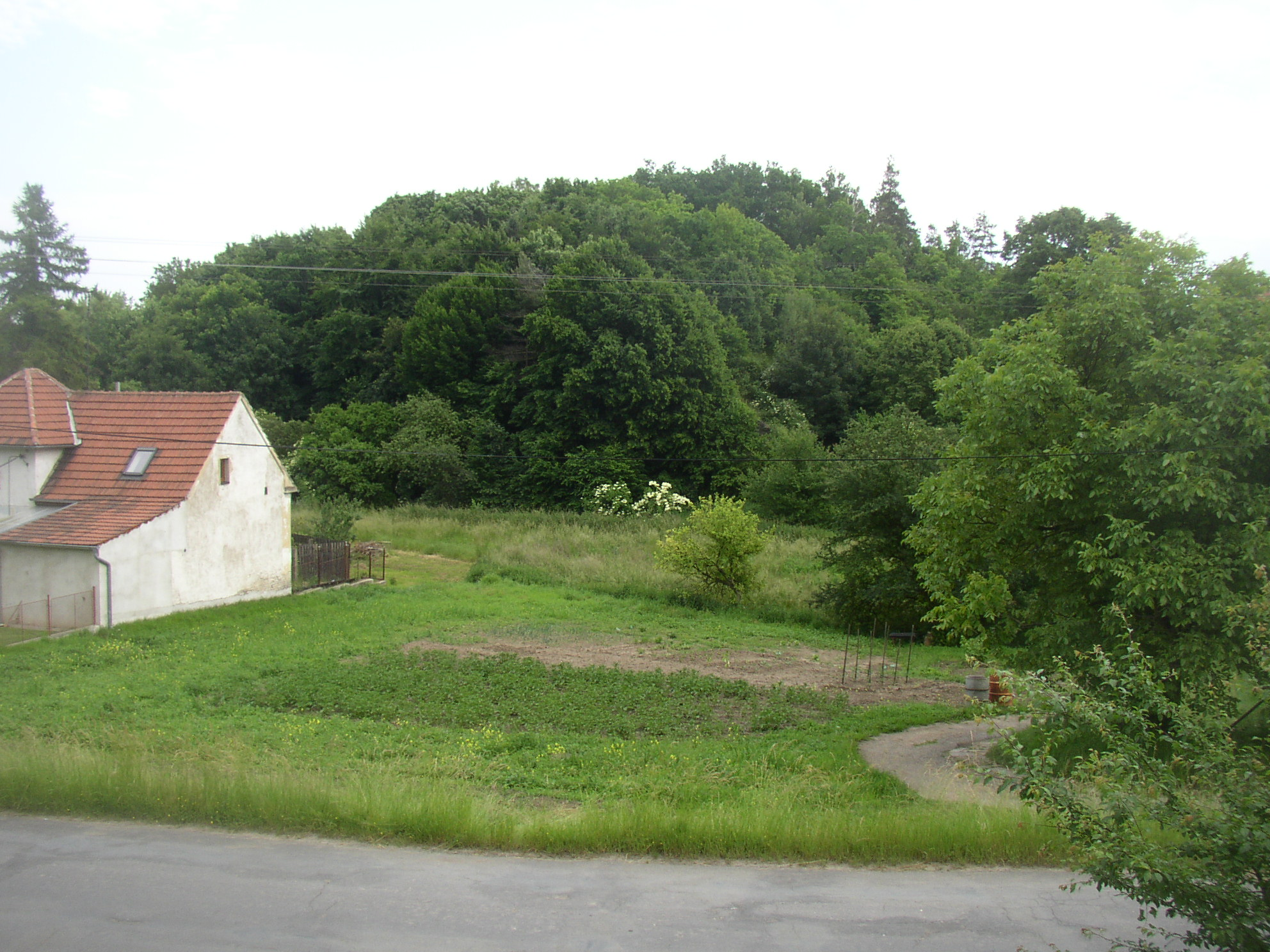 Small hill of Homolka in village of Stehelčeves, Kladno District, Czech Republic. Once a hill fort of Eneolithic Řivnáč culture, an important archaeological site. A view from the north-northwest, over the Dřetovický potok stream.